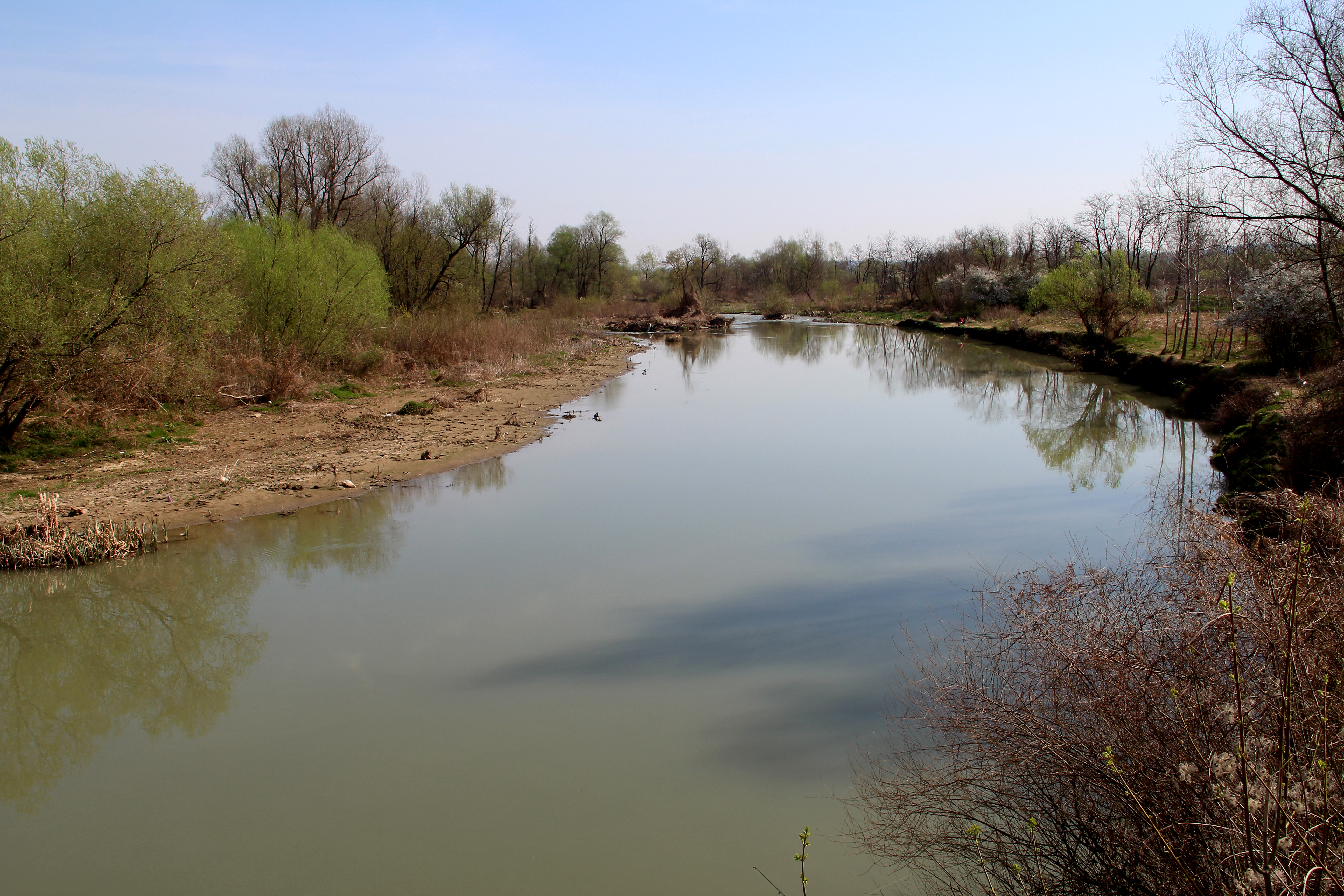 Šušeoka village - Municipality of Valjevo - Western Serbia - the river Kolubara 1